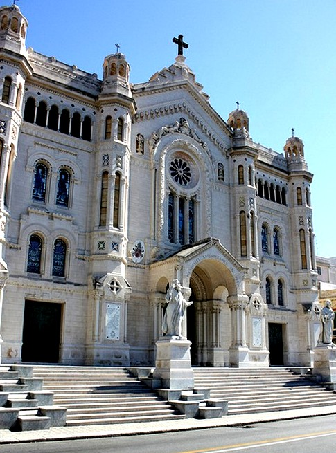 Reggio Calabria